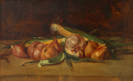 Still Life